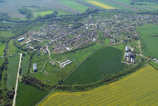 Bíňa, castle, Slovakia, aerial photography